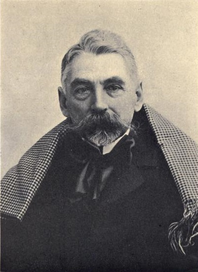 Portrait of Stéphane Mallarmé